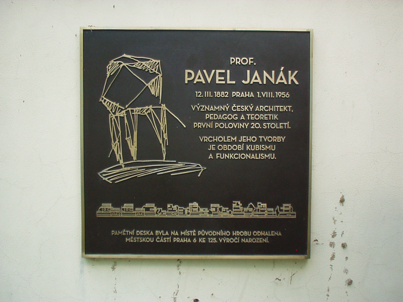 memorial plaque of Pavel Janák - Šárka cemetery in Prague